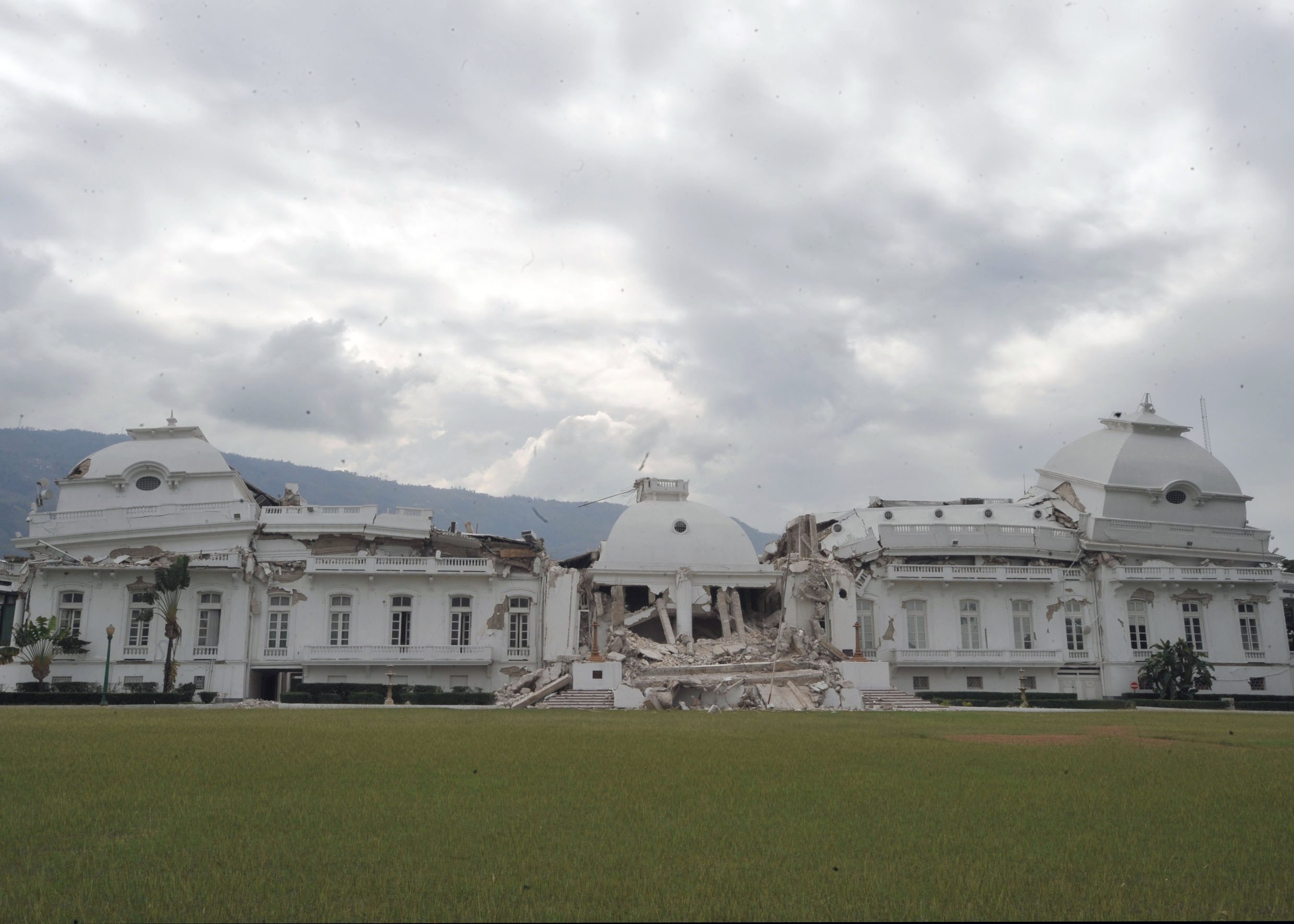 Street-view of the National Palace of Haiti, destroyed by the 2010 Haiti Earthquake.